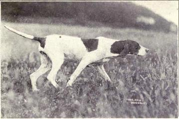 Pointer from 1915